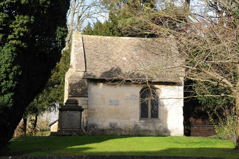 Remains of St Mary Magdalene chapel, Gloucester